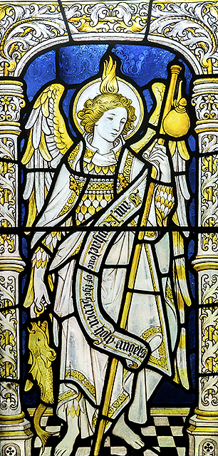 Saint Raphael (meaning ‘God heals’), one of four stained glass windows in the cloisters of Chester Cathedral depicting the Archangels mentioned in the Christian Bible. Raphael is depicted holding a staff (representing healing), flask and fish (referring to a scriptural story in which Raphael uses parts of a fish in his healing work). Inscription: ‘I am Raphael one of the seven holy angels’.